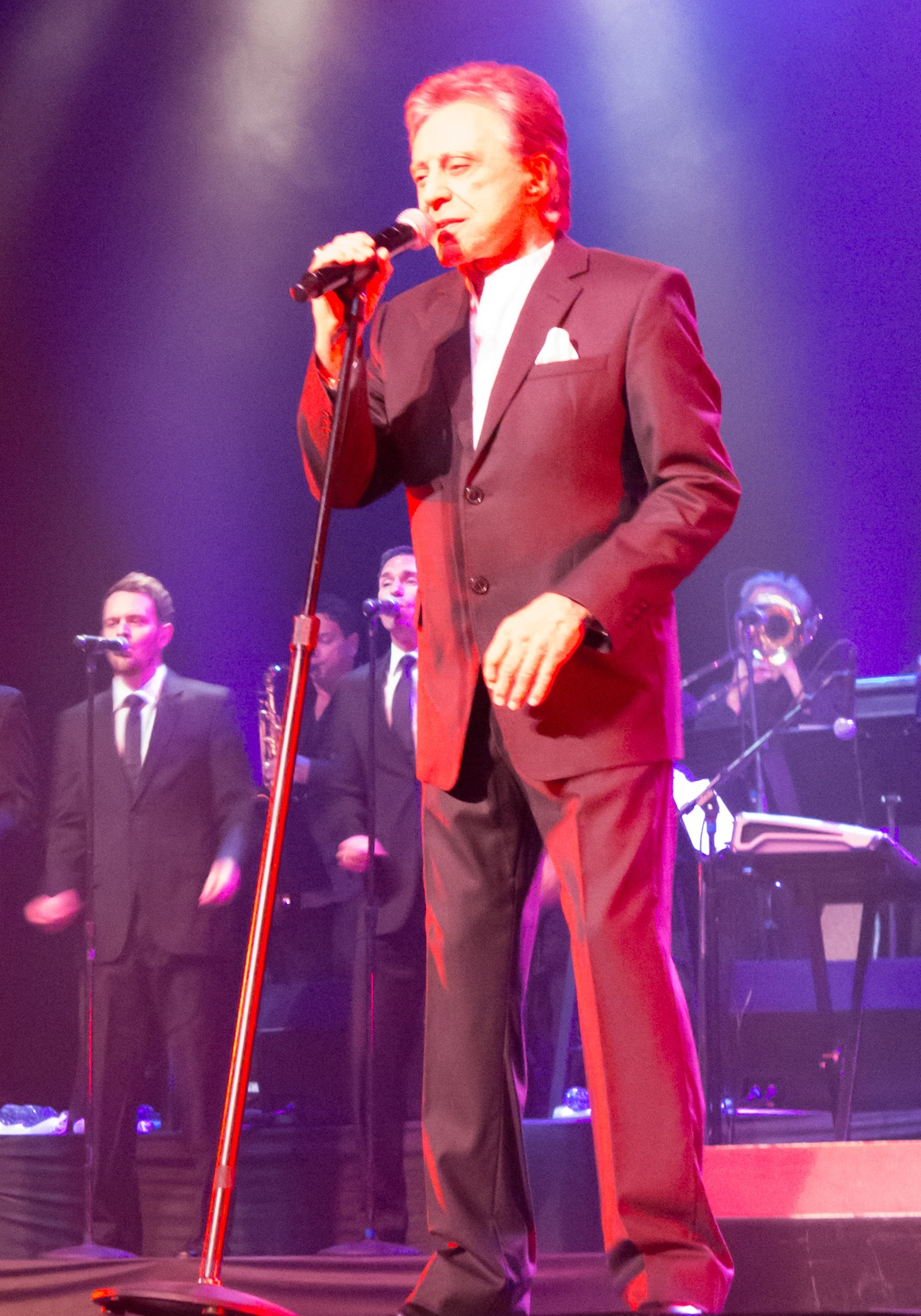 Frankie Valli at the Saban Theater, Beverly Hills, CA in 2013